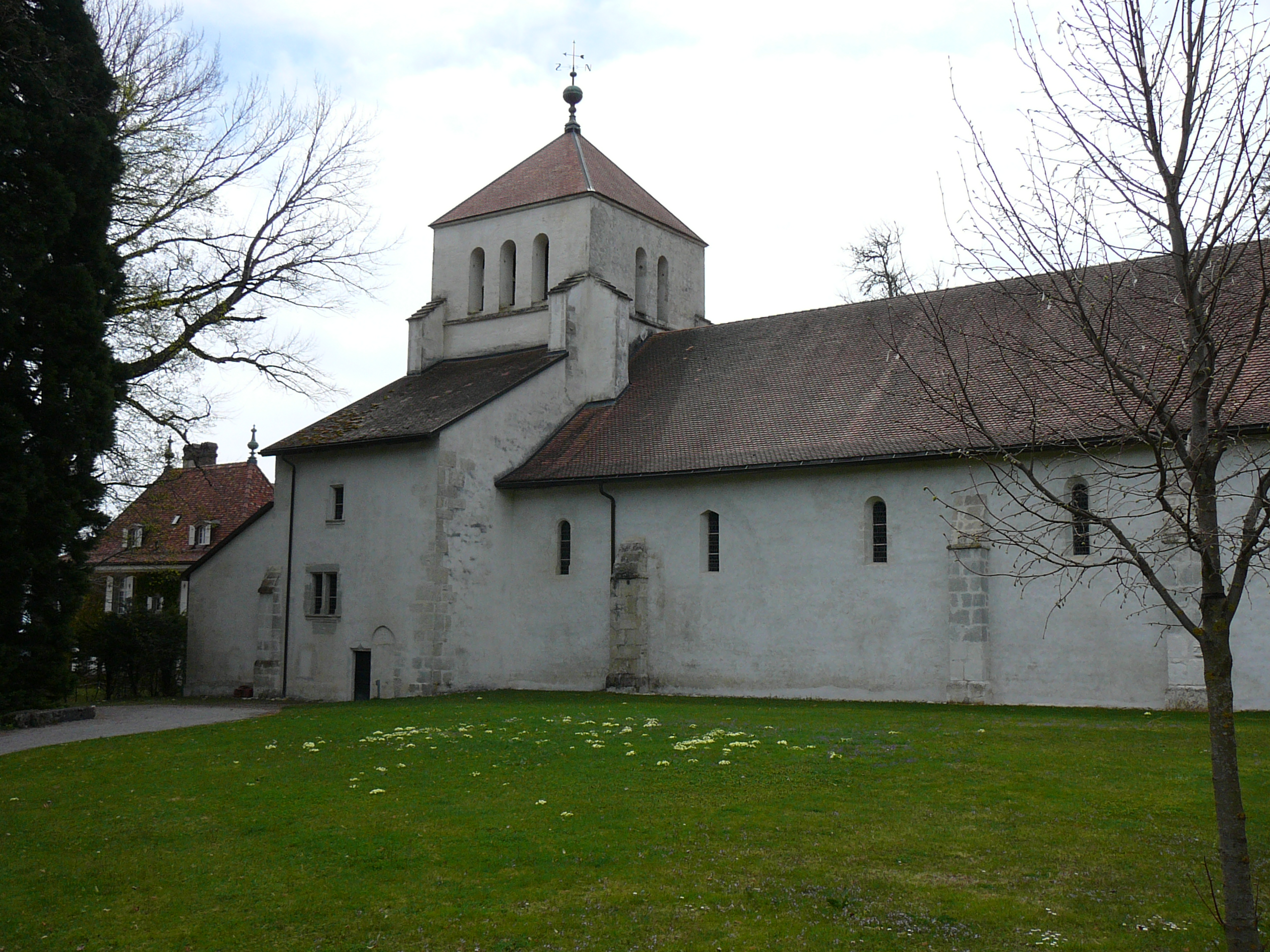 Face view of the Abbaye de Bonmont